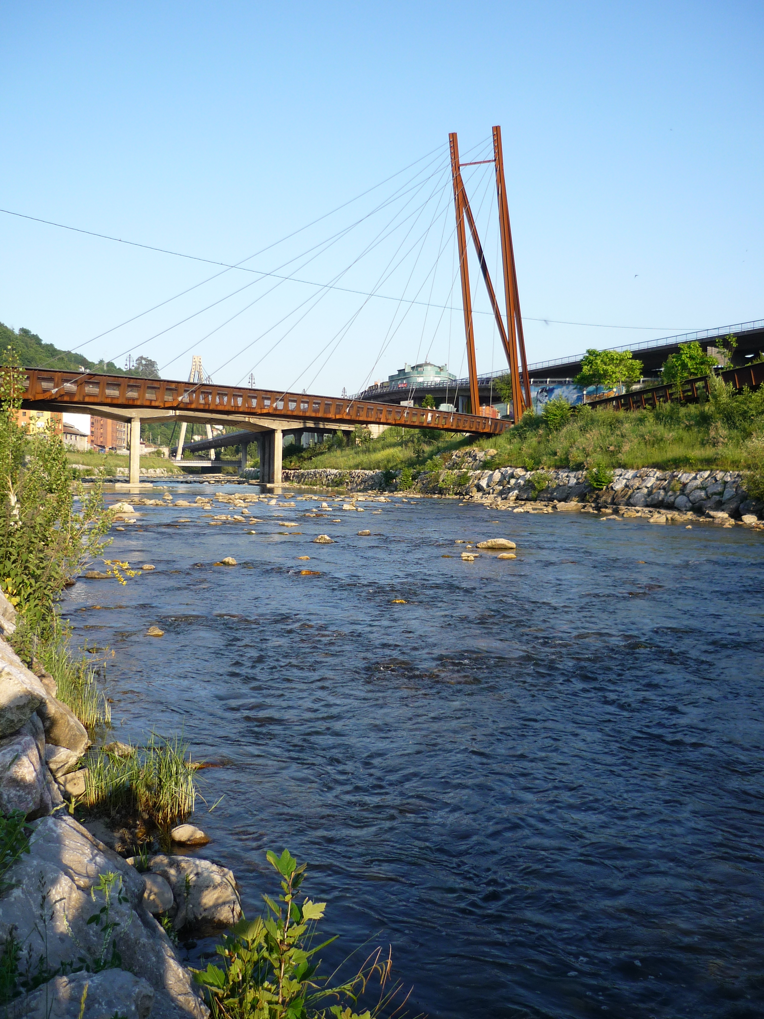 The Nalon River in Asturias